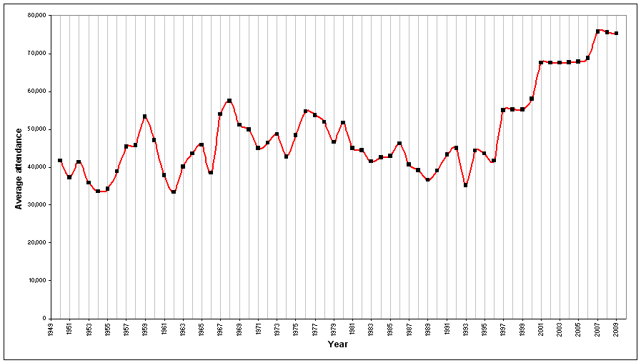 A graph of average league attendances at Old Trafford in the period from 1949 to 2008.